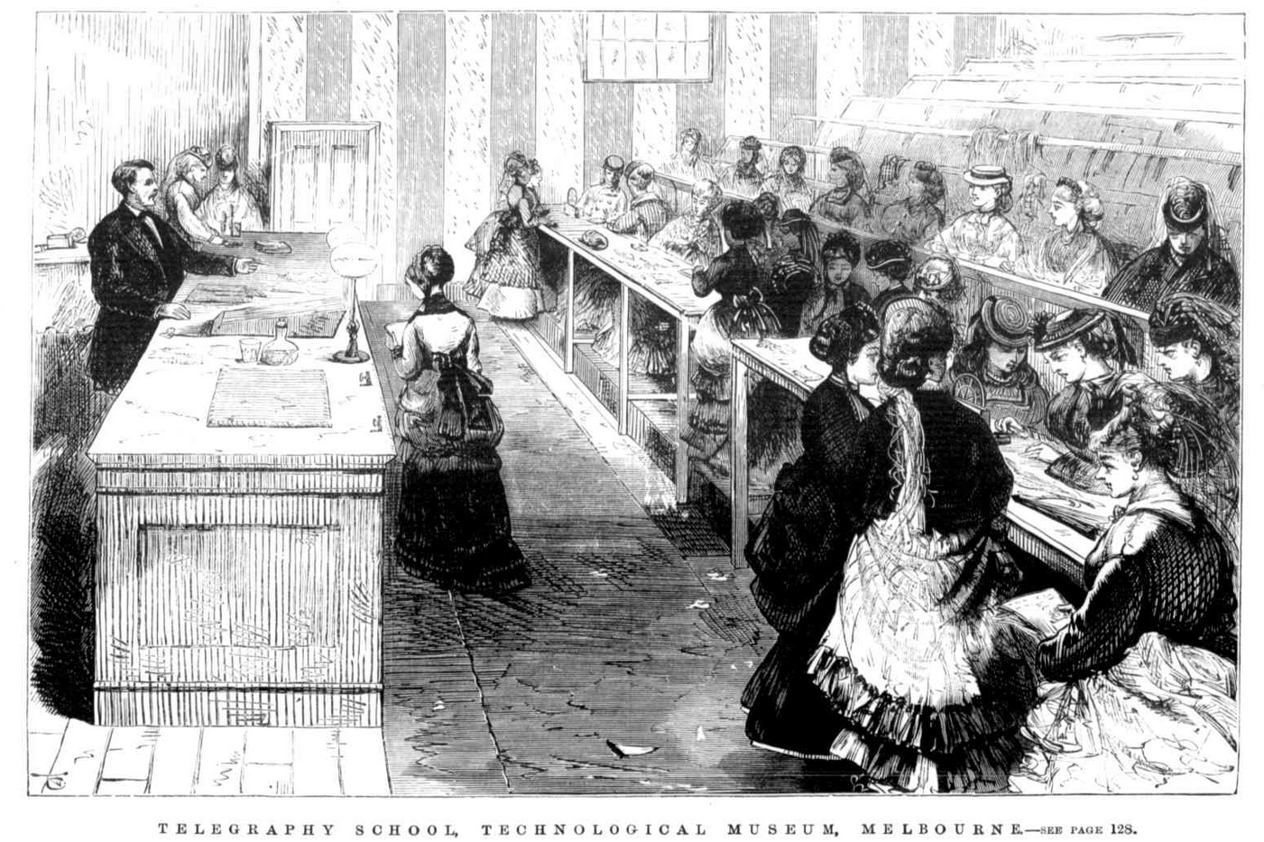 1872 Engraving by Samuel Calvert, published in the Illustrated Australian News for Home Readers. Shows women learning telegraphy.